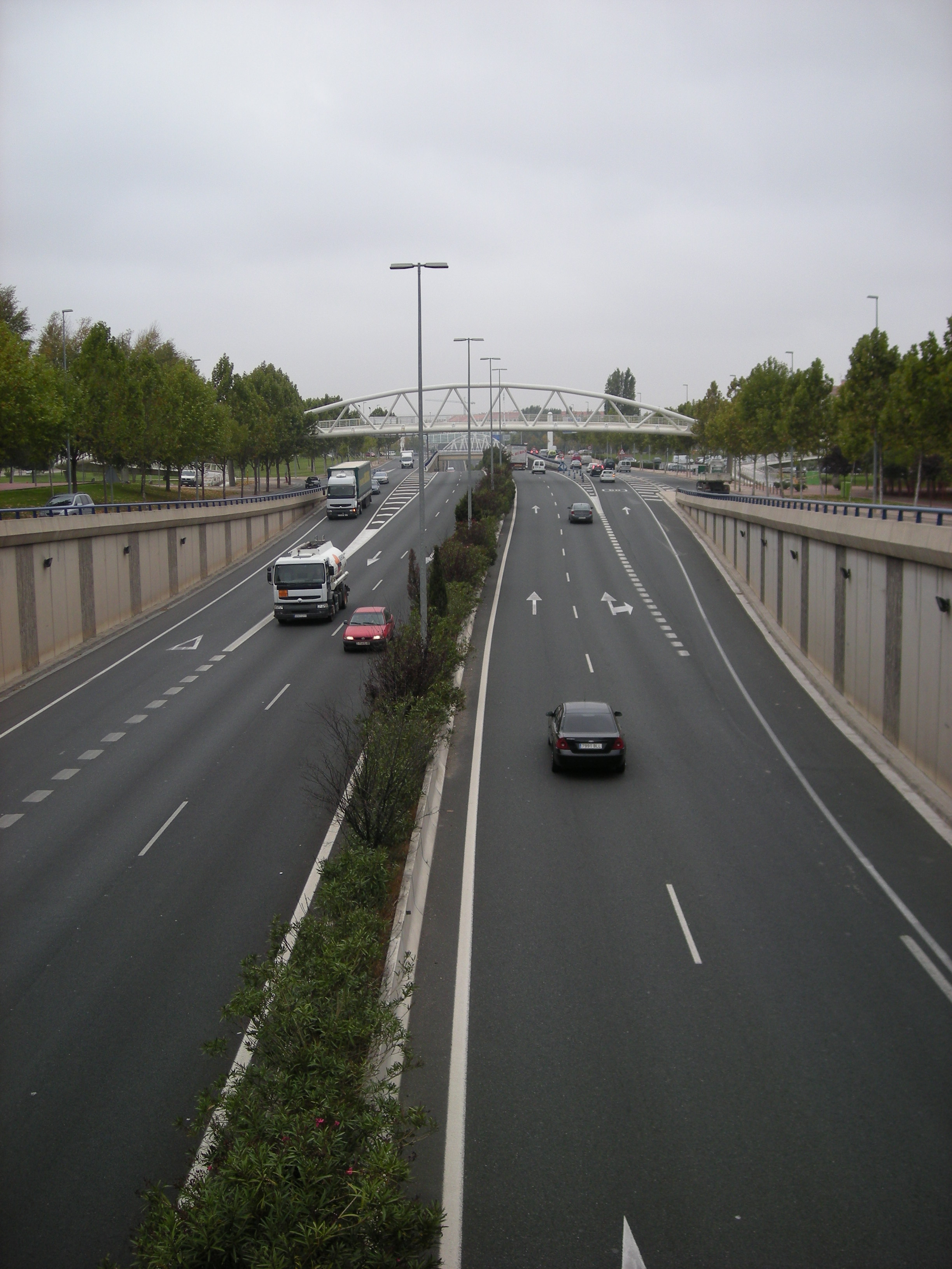 LO-20 road in Logroño, La Rioja, Spain.